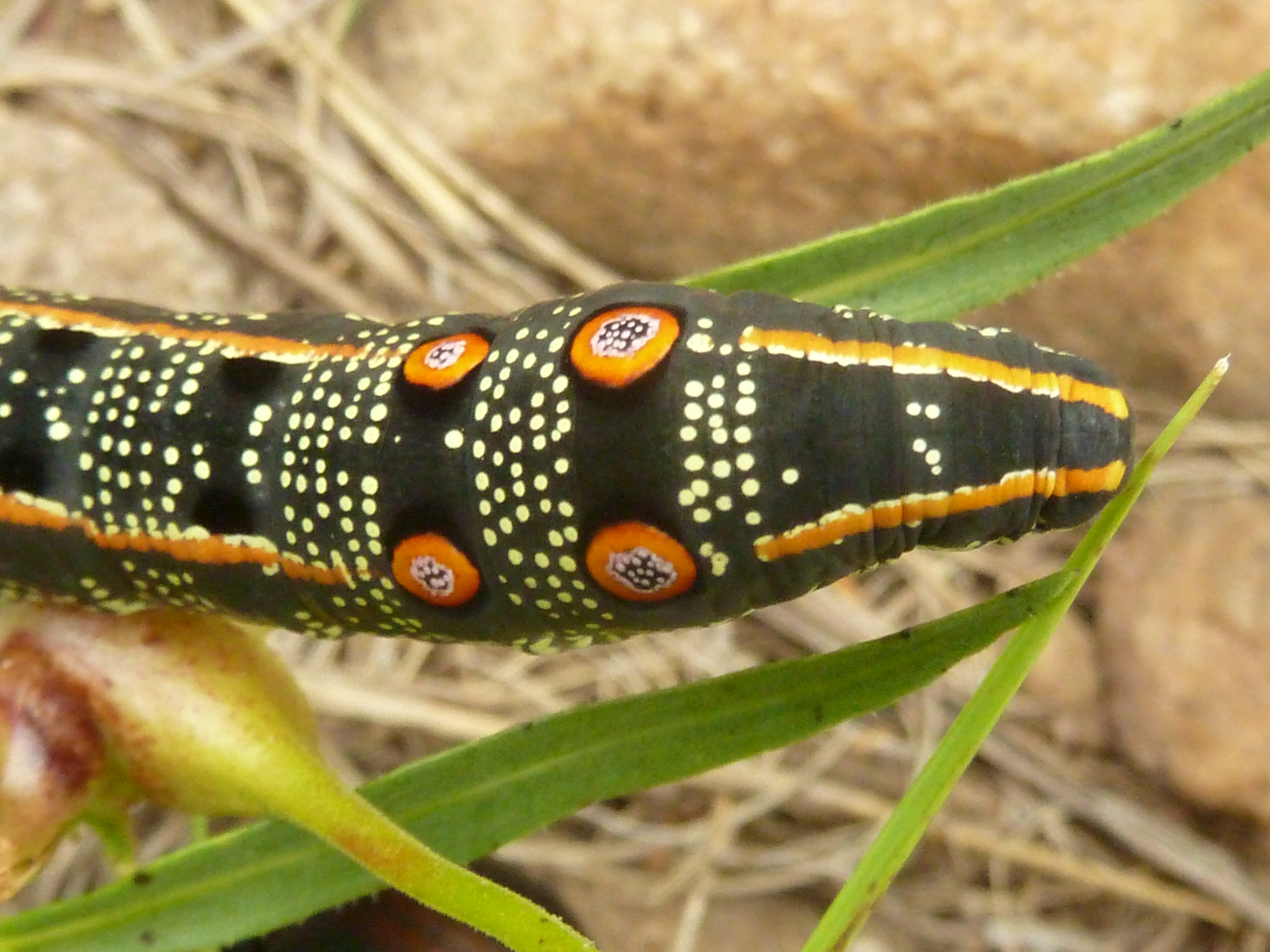 Basiothia schenki caterpillar feeding on Pentanisia angustifolia on the crest of the Magaliesberg near Skeerpoort, South Africa